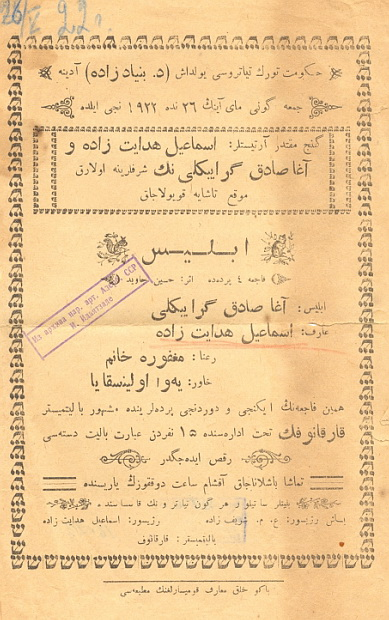 Poster of play Devil (by Hüseyn Cavid). State Theatre.